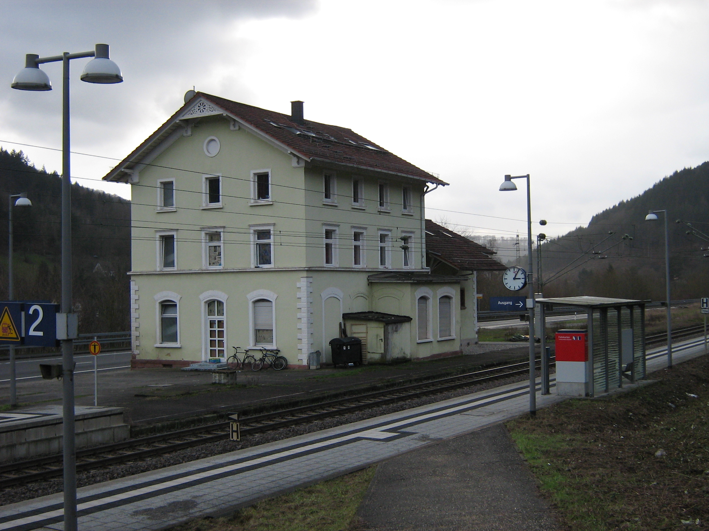 Train station Neckarhausen (Neckarsteinach, Hesse, Germany)